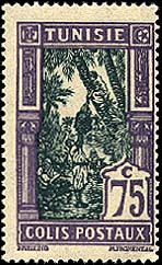 Cultivation_of_Dates_-_Stamp_-_Tunisia_1926 (parcel post)